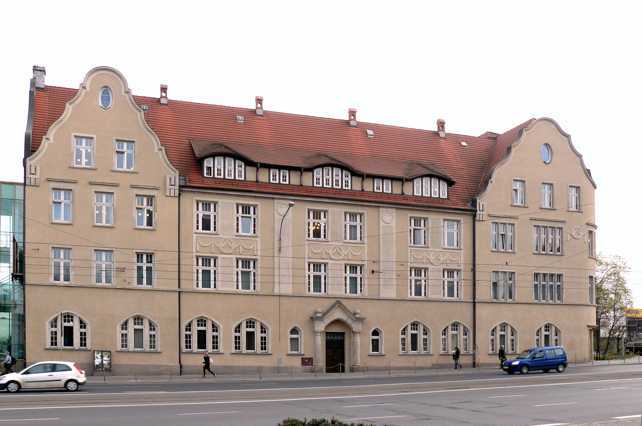 Old building Academy of Music in Poznan.